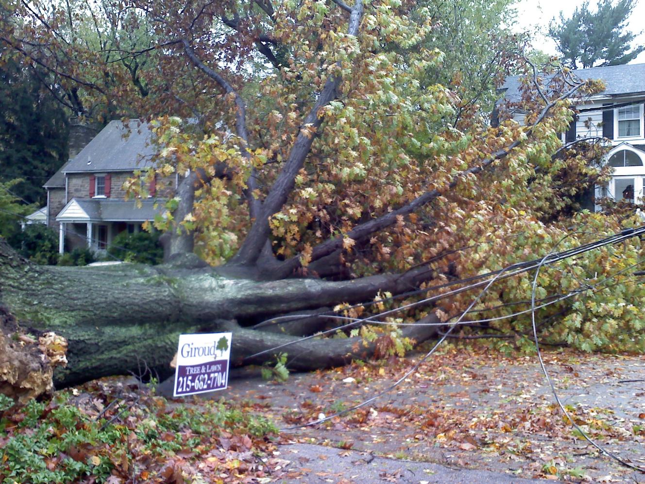 Damage from Hurrican Sandy in Wyncote, Cheltenham Township, Pennsylvania, USA